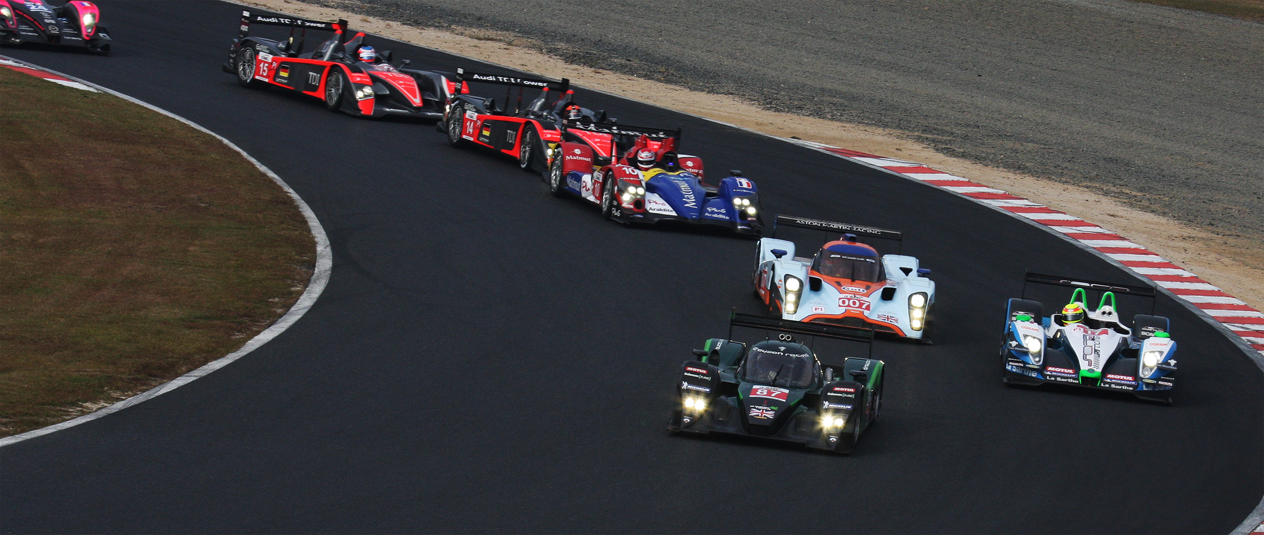 Asian Le Mans Series 2009 1000km of Okayama: Opening lap of Race 2.